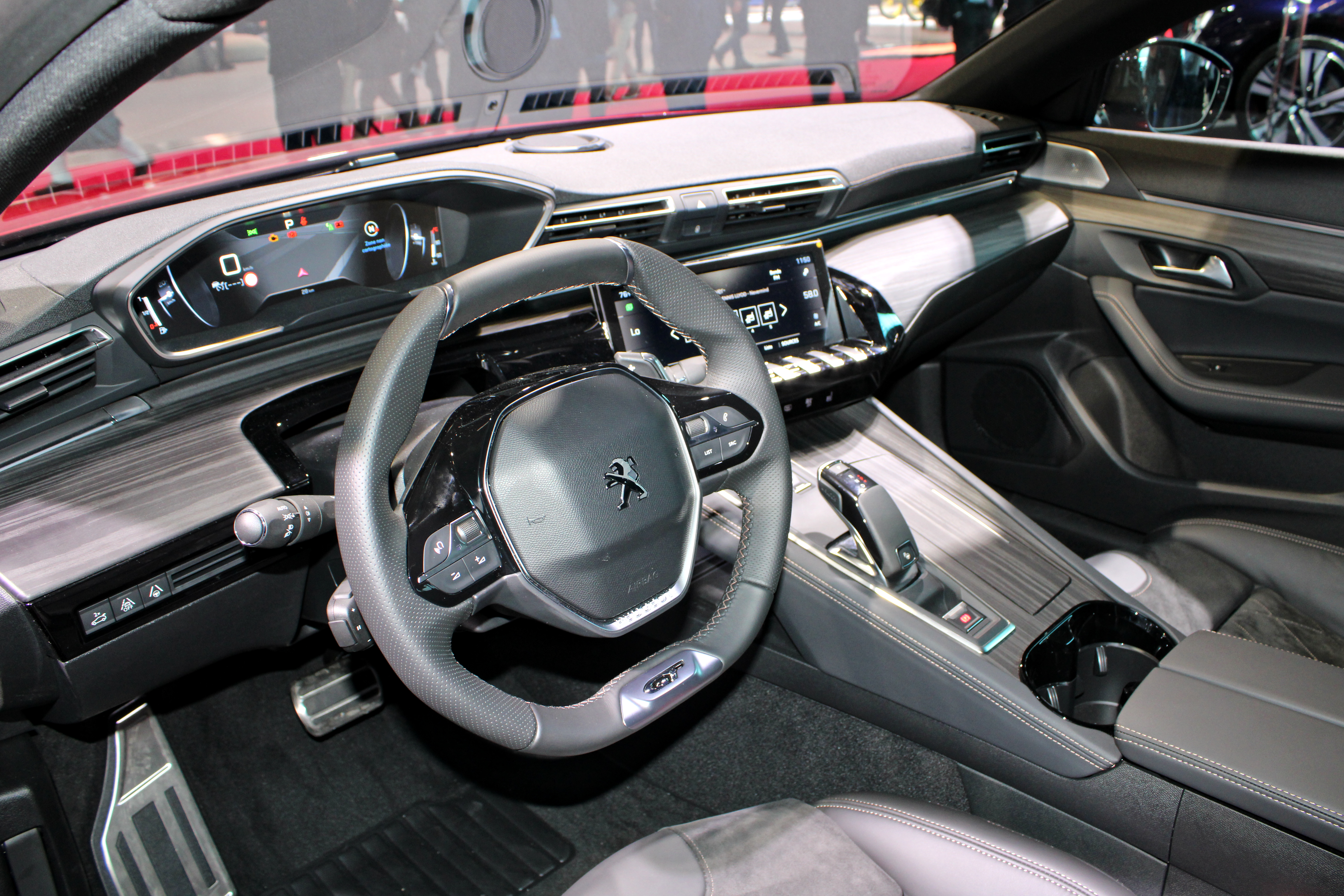 Peugeot 508 at Paris Motor Show 2018